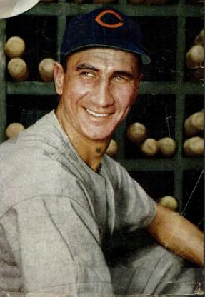 Cincinnati Reds outfielder Hank Sauer in a 1948 issue of Baseball Digest.